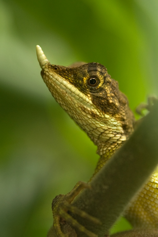 Rhino Horn Lizard from Hortons plains in Sri Lanka